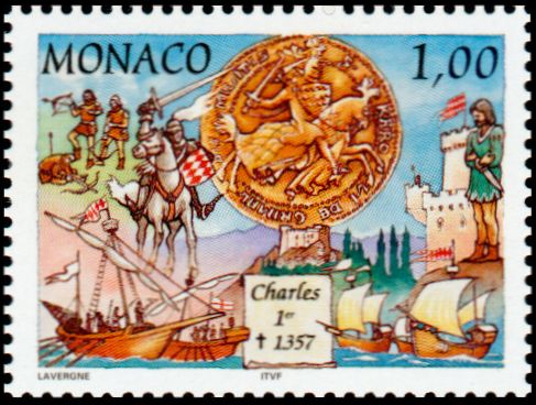 Charles I of Monaco